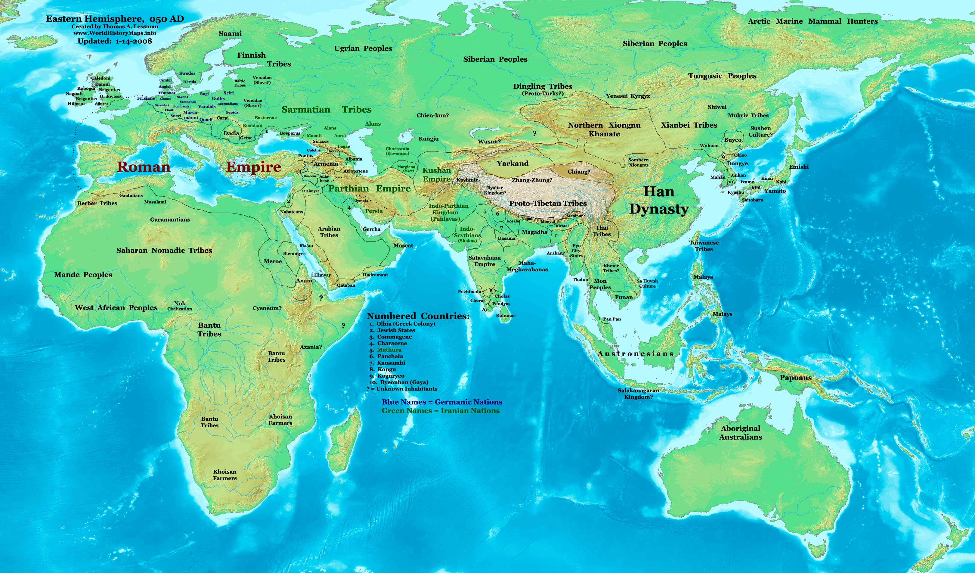 Eastern Hemisphere in 050 AD.